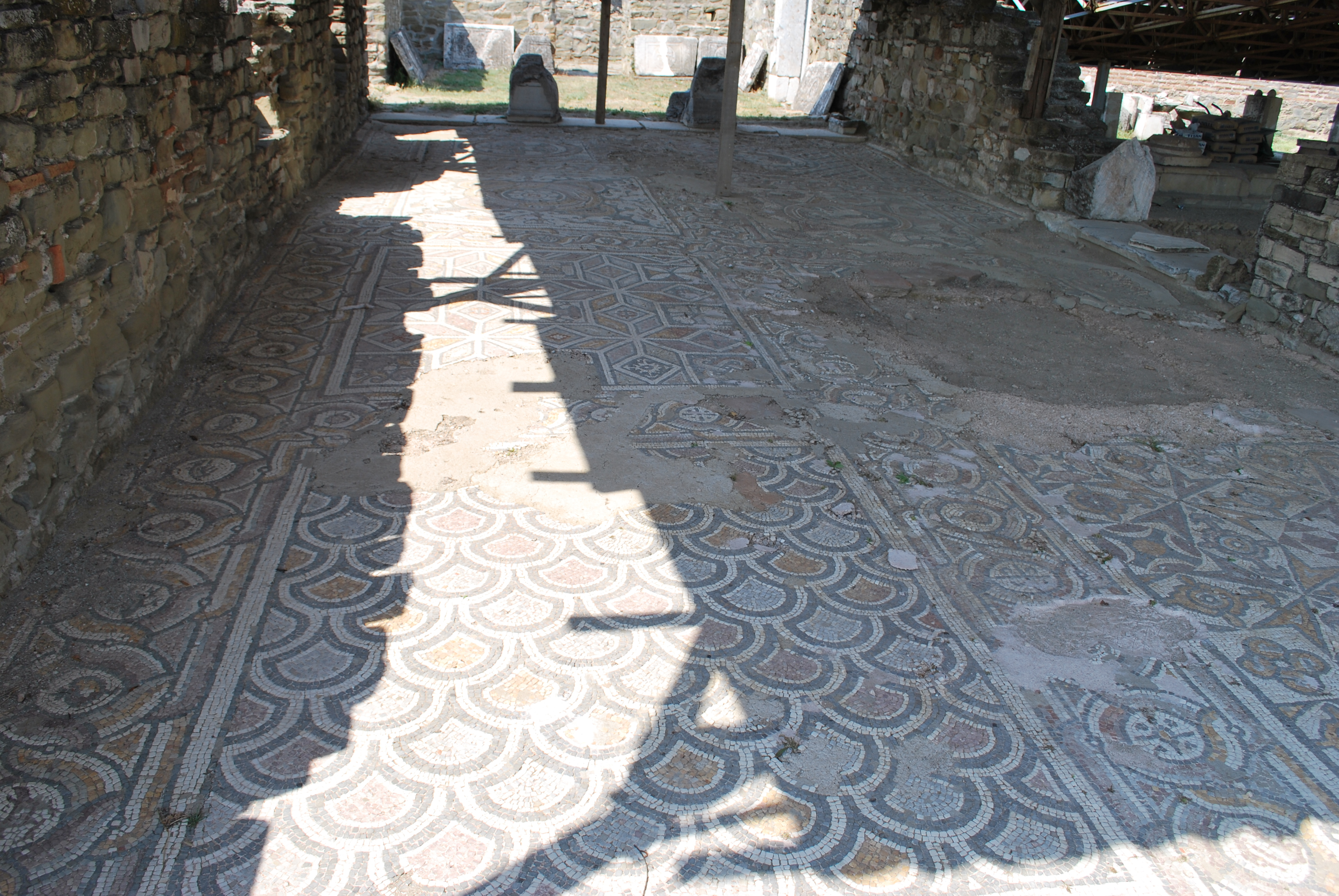 Stobi, Macedonia